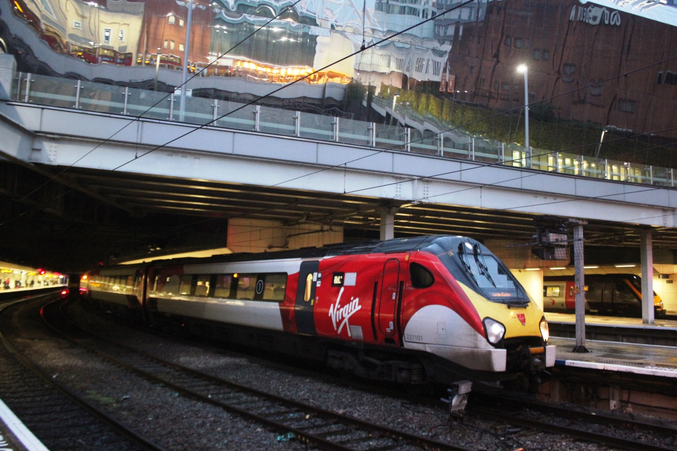 Virgin Trains' 221101, recently repainted into 'flowing silk' livery, prepares to leave Birmingham New Street station with an evening service to London Euston.